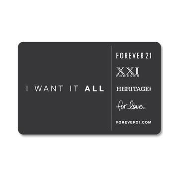 ForEver21 Retail Inc. Girft Card missing the Gadzooks21 and Referrence logos.